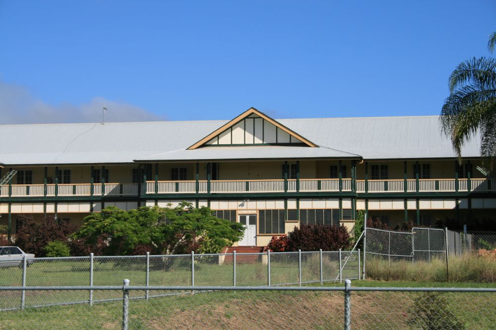 Maryborough Hospital, nurses quarters from east on Yaralla St (2009)